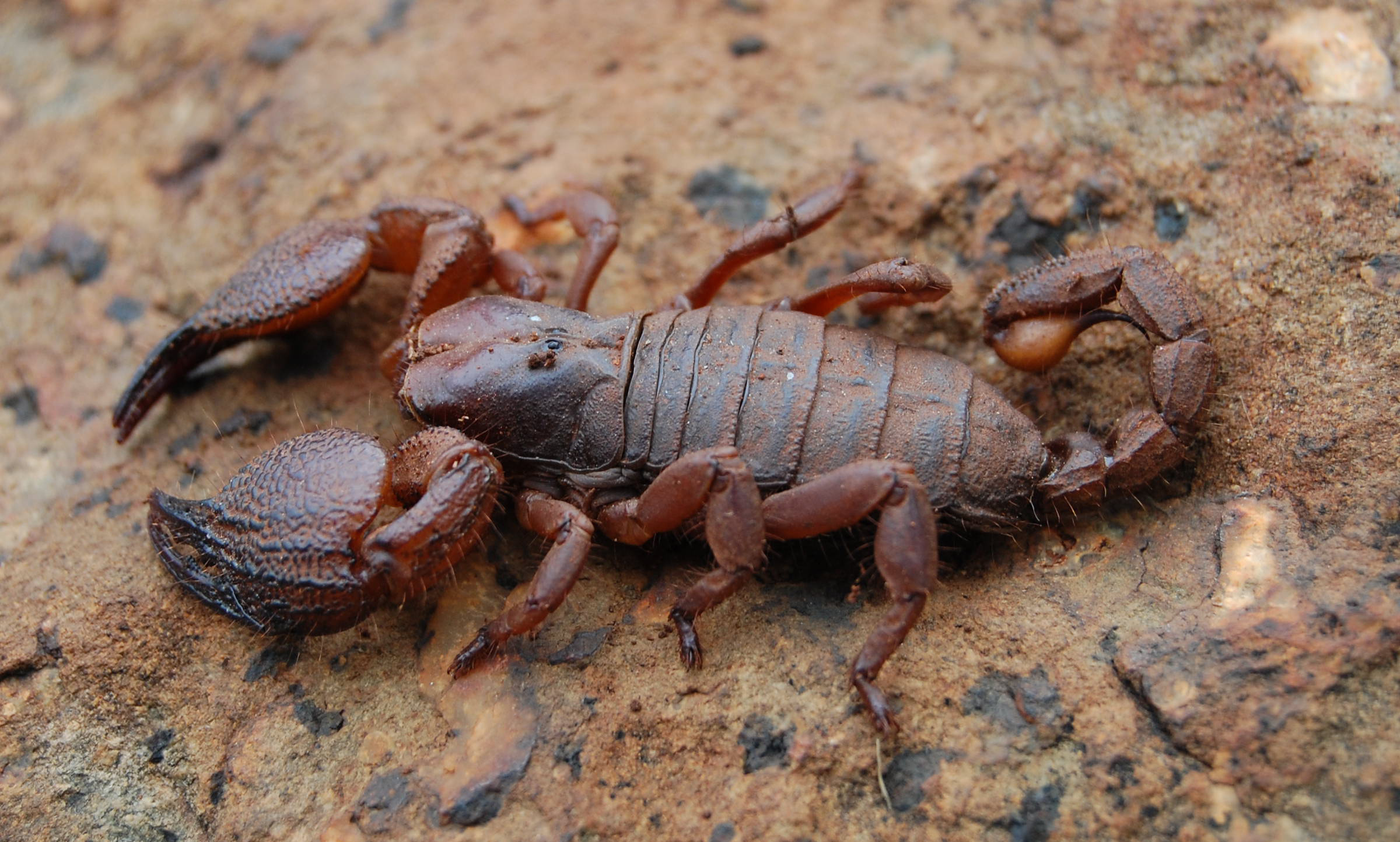 Opistophthalmus pugnax, Johannesburg